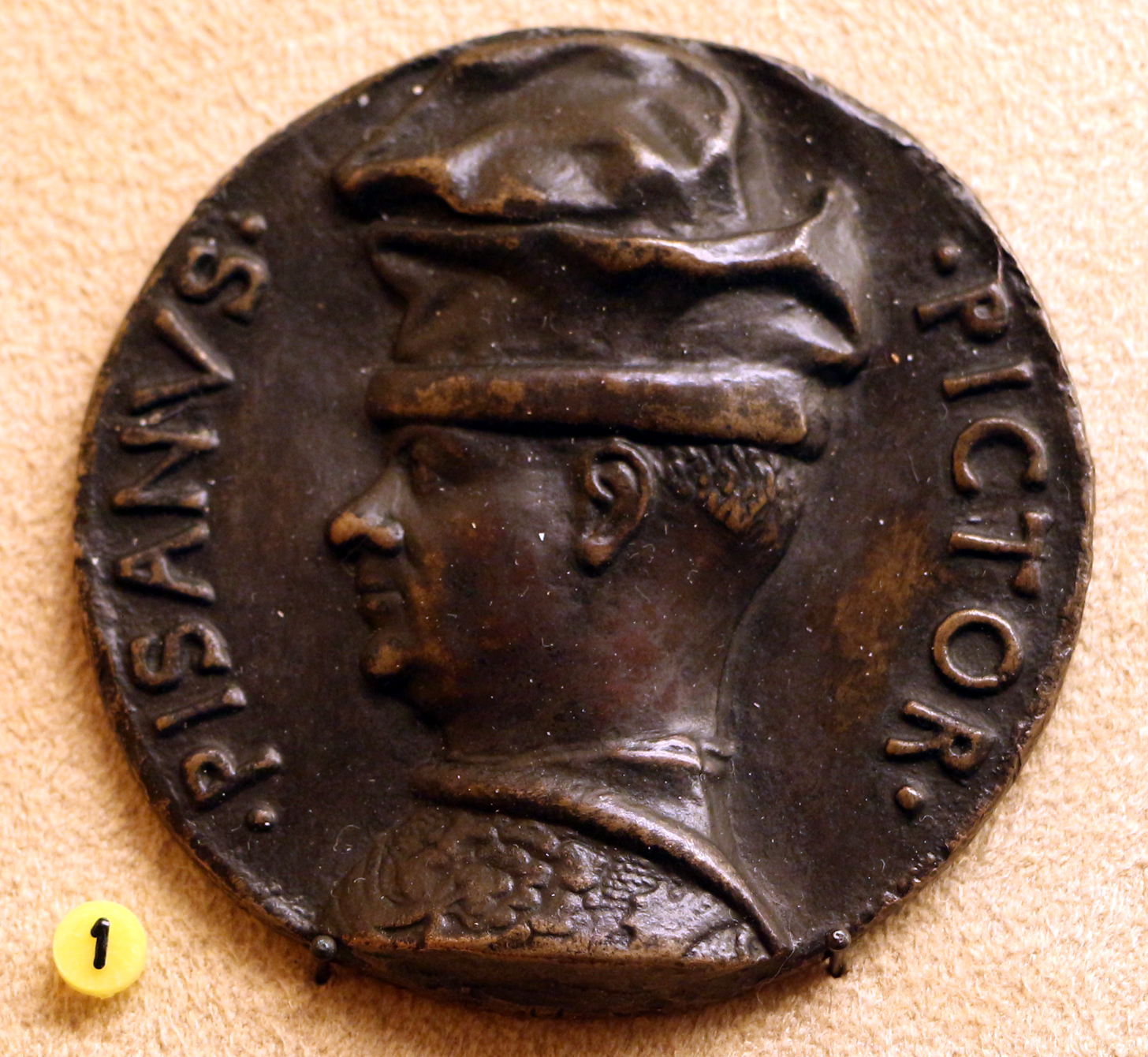 Coins and medals in the National Museum of Finland